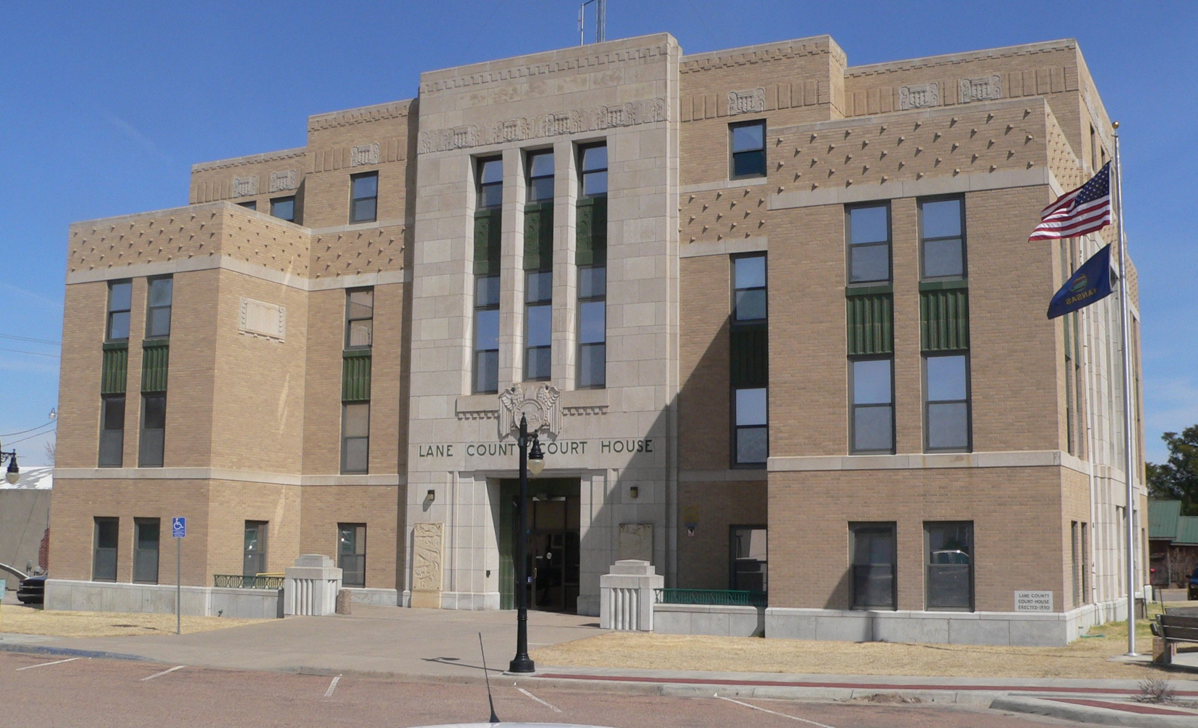 Lane County courthouse in Dighton, Kansas; seen from the southwest.